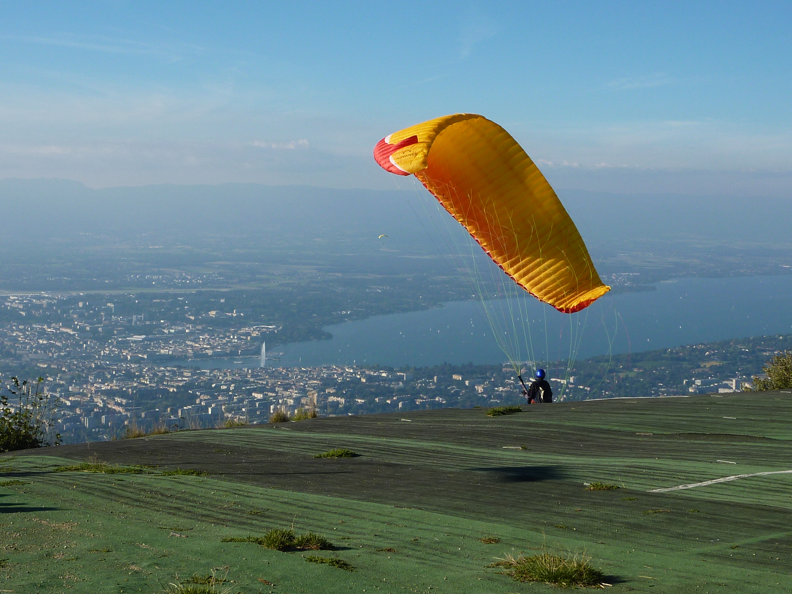 Paragliding on the Salève